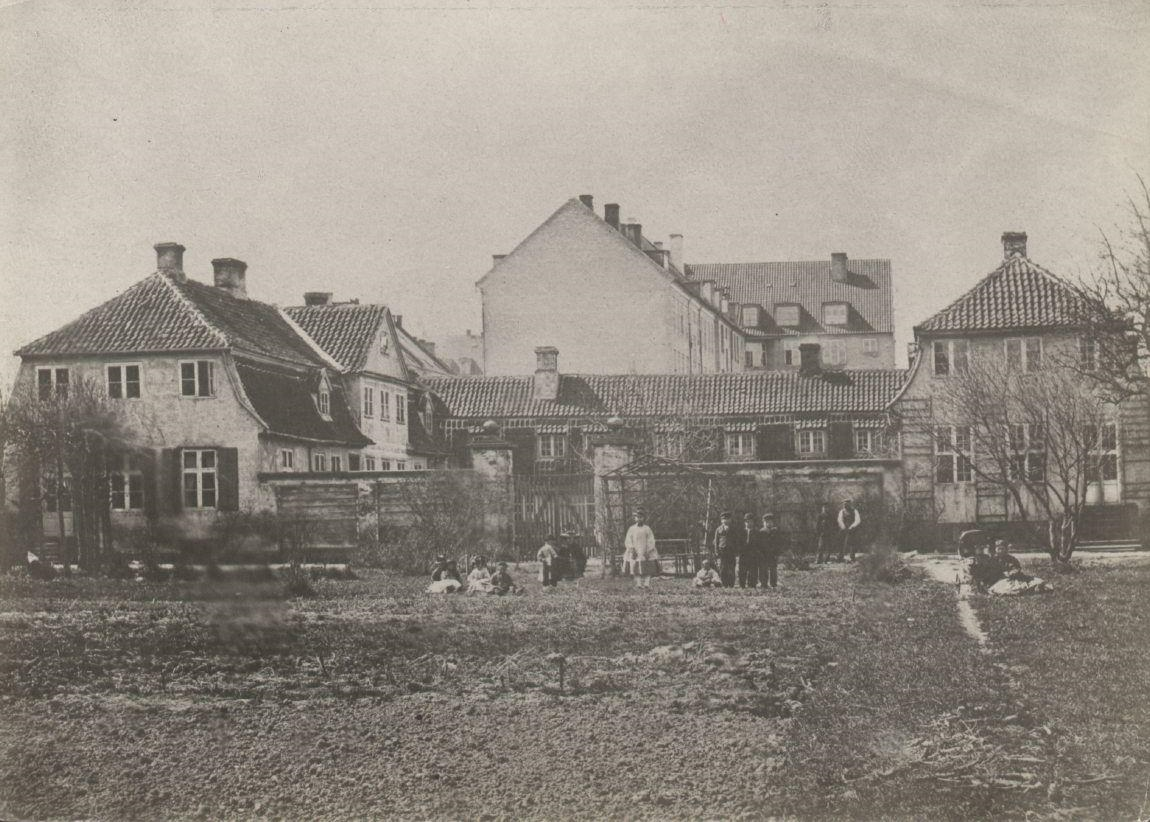 Vesterbrogade 108, Håbet